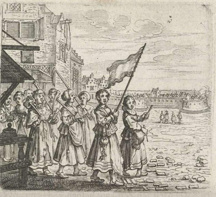 Attack on Vredenburg 1577 Utrecht Netherlands